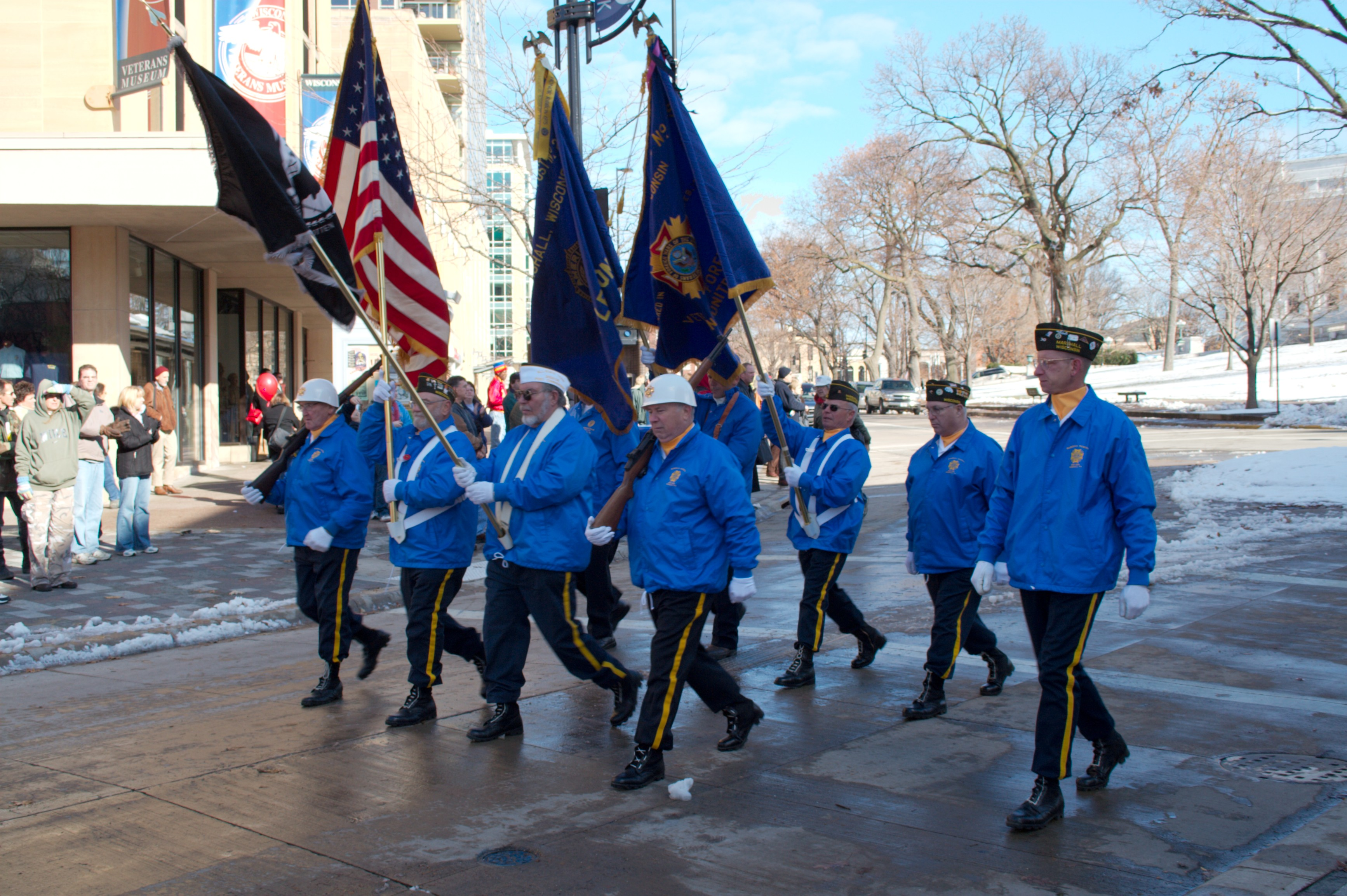 Taken in Madison, Wisconsin during Veteran's Day parade